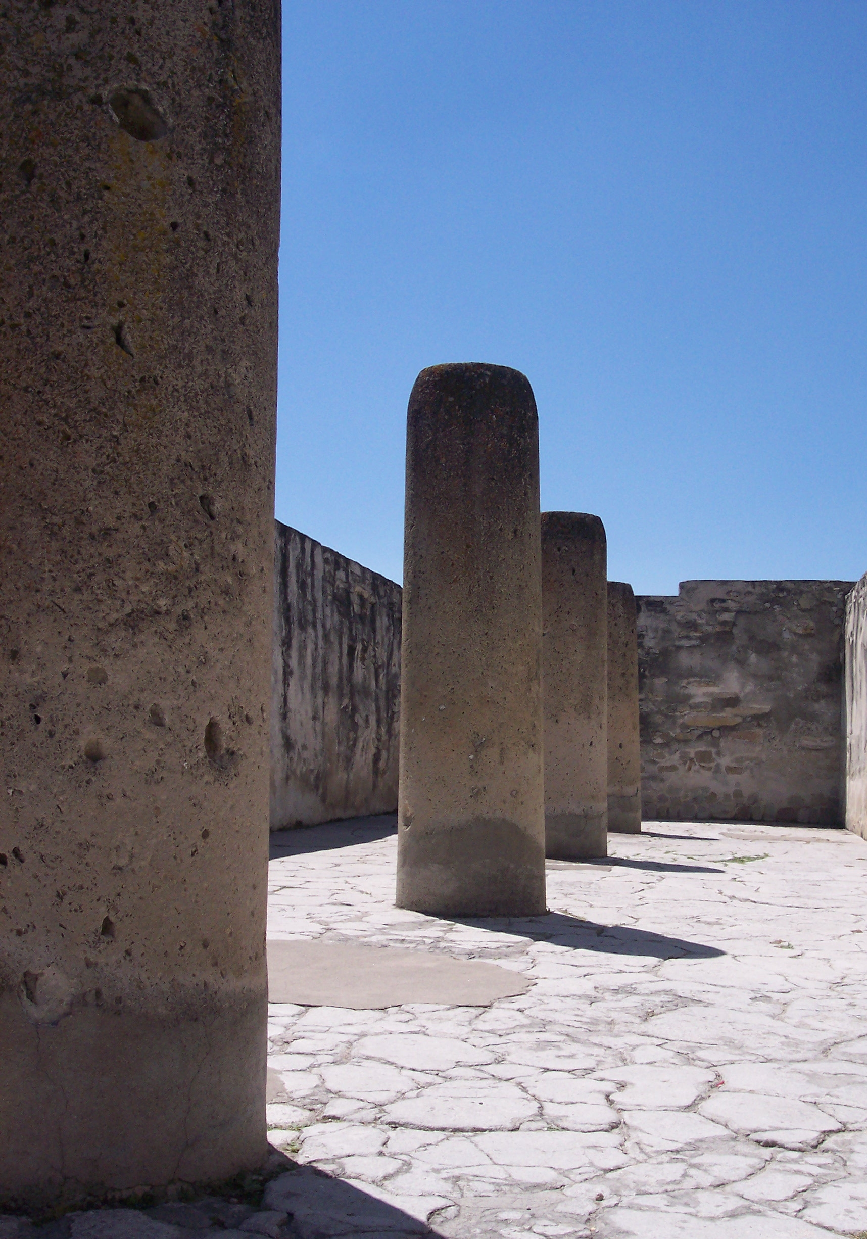 Image from the archeological site Mitla. Oaxaca, Mexico.